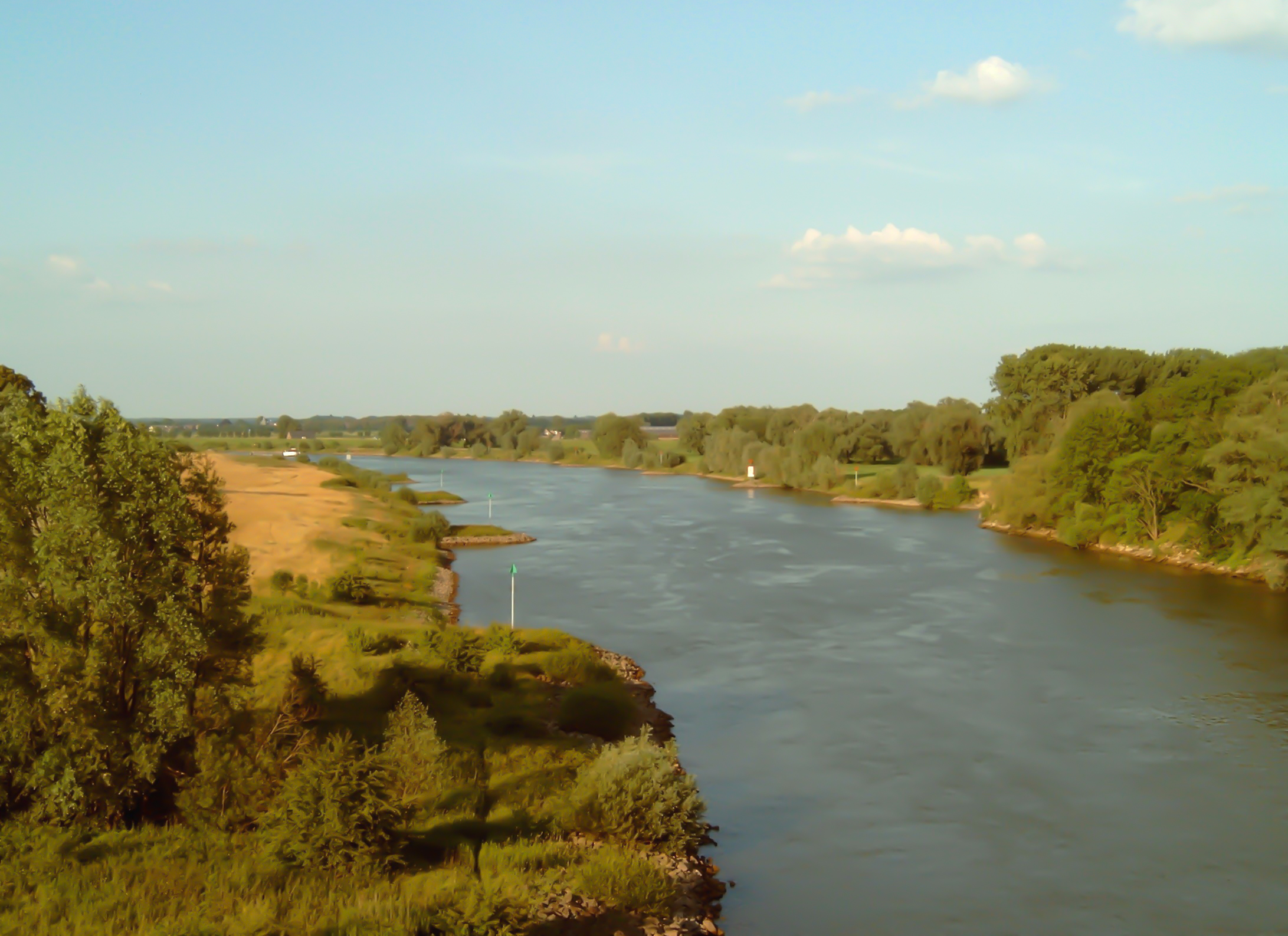 The IJssel river near Velp, the Netherlands